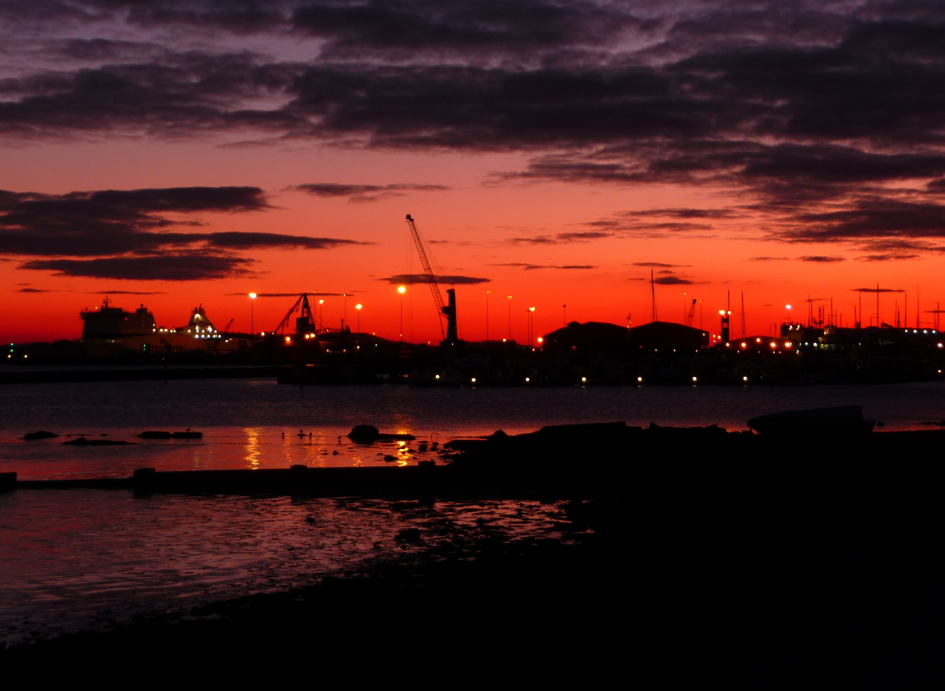 Poole : Pool Harbour An orange sky over the harbour at 6.30pm. Darkness is coming.